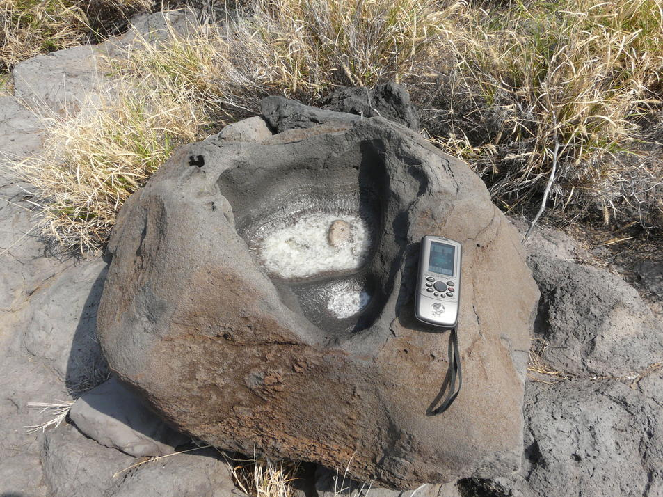 salt weathering pothole in basalt. Big Island, Hawaii